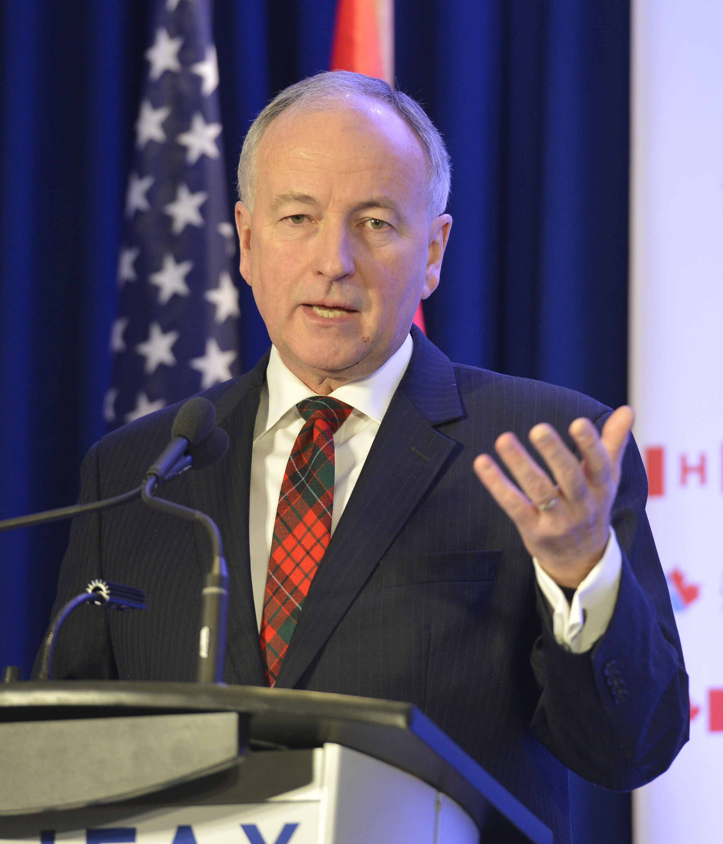 Canada's Minister of National Defense Rob Nicholson speaks to reporters during a press conference after he and Secretary of Defense Chuck Hagel signed a memorandum of understanding titled "Cooperation Framework" at the Halifax International Security Forum in Halifax, Canada, Nov. 22, 2013.